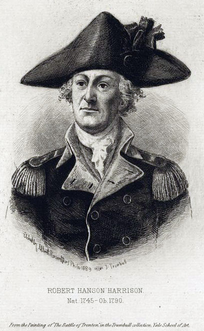 Maryland jurist Robert Hanson Harrison